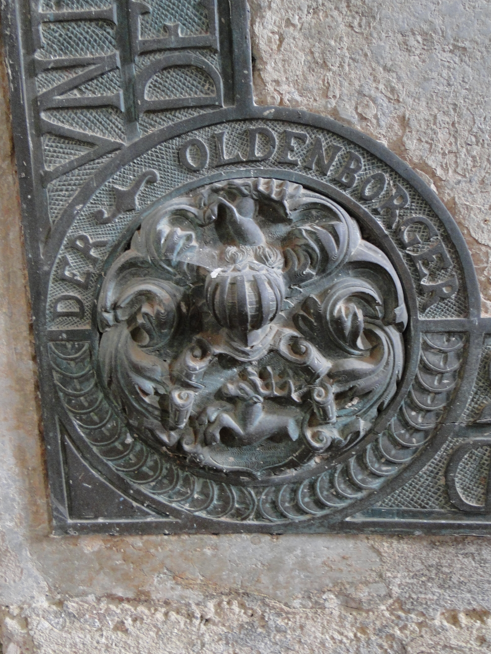 Church in Woosten, district Ludwigslust-Parchim, Mecklenburg-Vorpommern, Germany